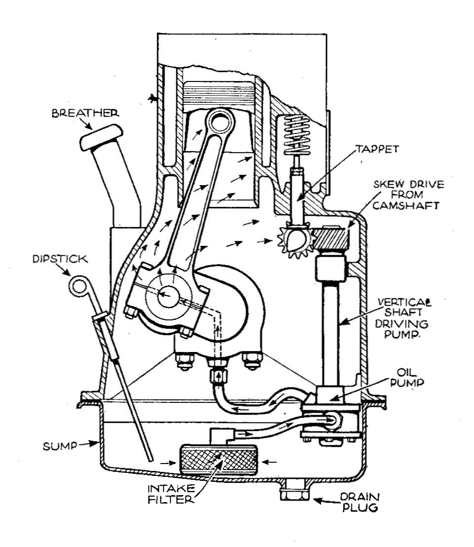 Sidevalve engine with forced oil lubrication to crank and oil mist to camshaft (Autocar Handbook, 13th ed, 1935).jpg